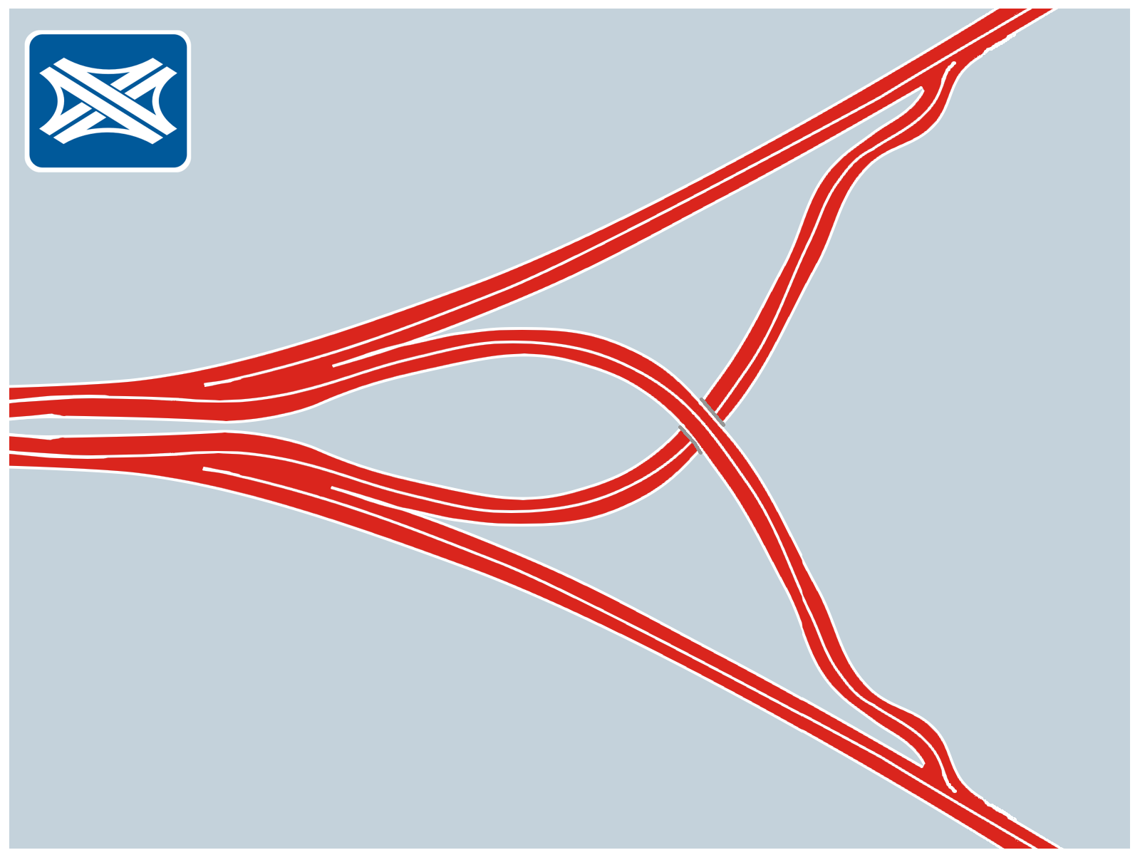 Illustation of to Motorways merging to one